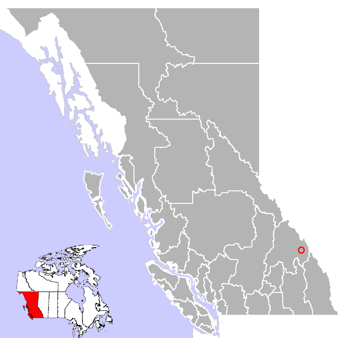 Golden, location.